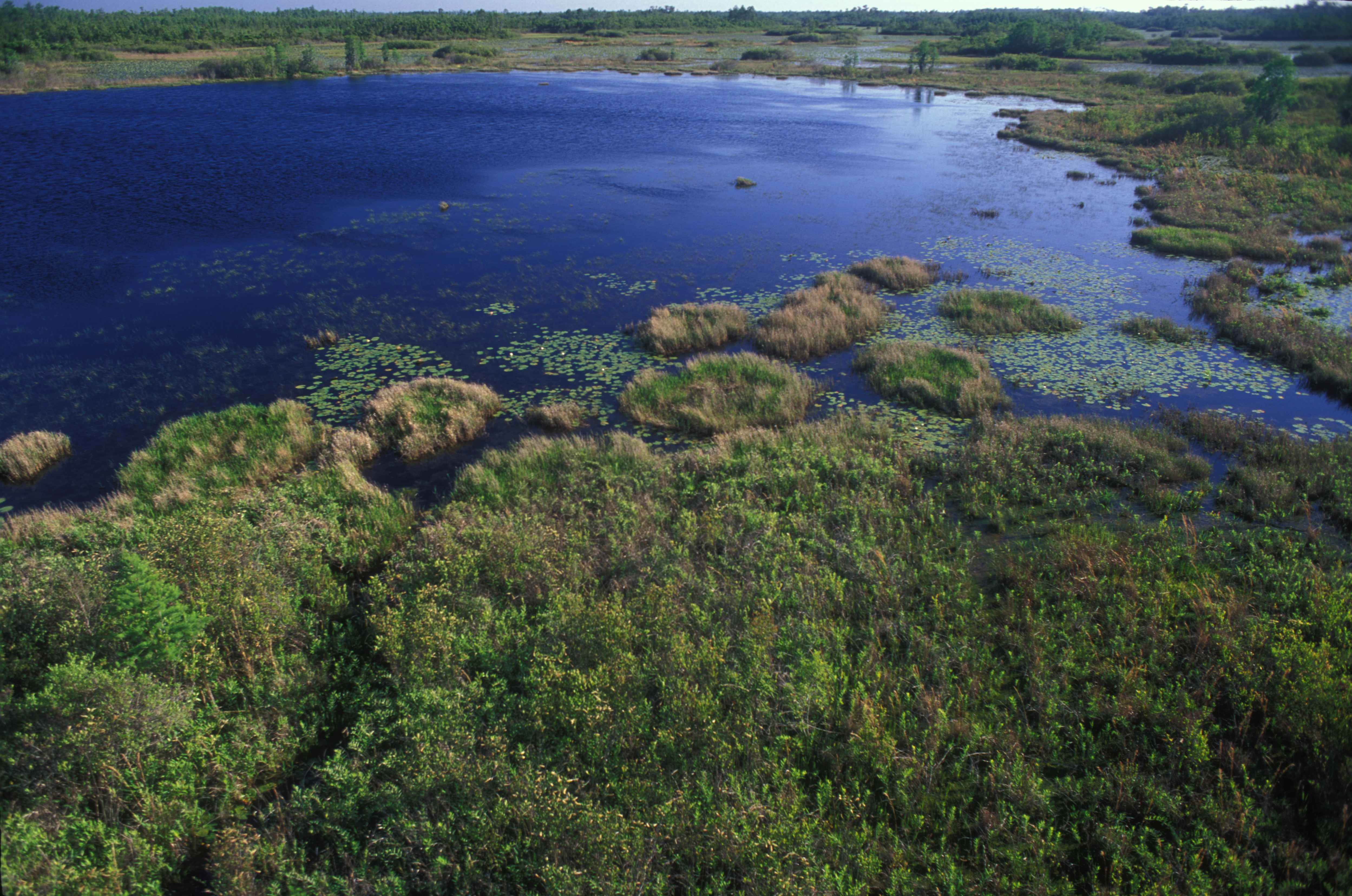 Image title: Aerial view of wetlands in Okefenokee Image from Public domain images website